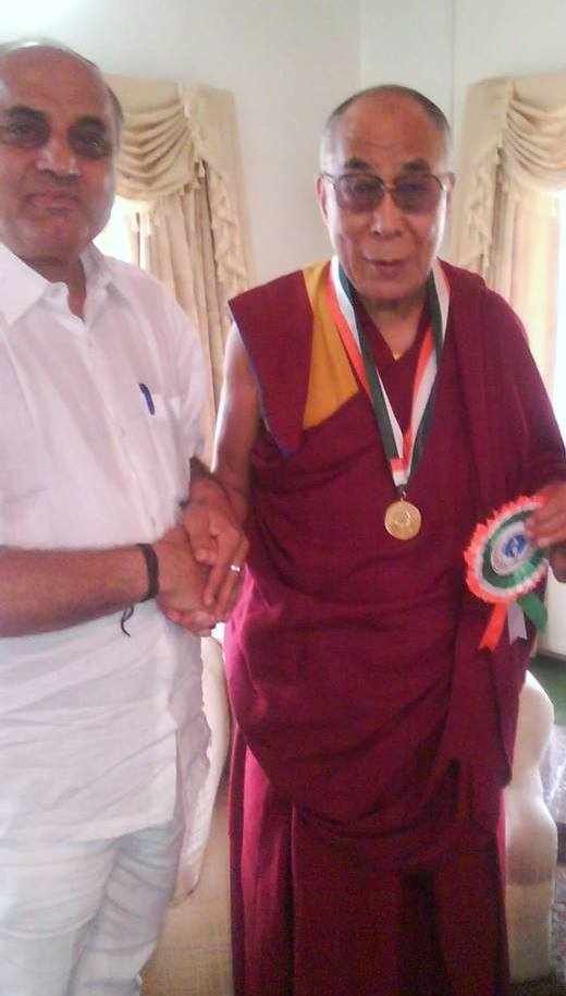 Presenting Mahatma Gandhi Award to His Holiness Dalai Lama.